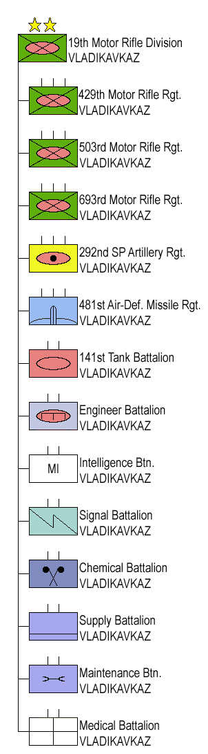 19th Motor Rifle Division, Russian Ground Forces